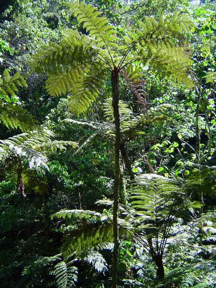 Cyathea manniana Hook. - Bart Wursten - Bunga Forest, Vumba, Zimbabwe